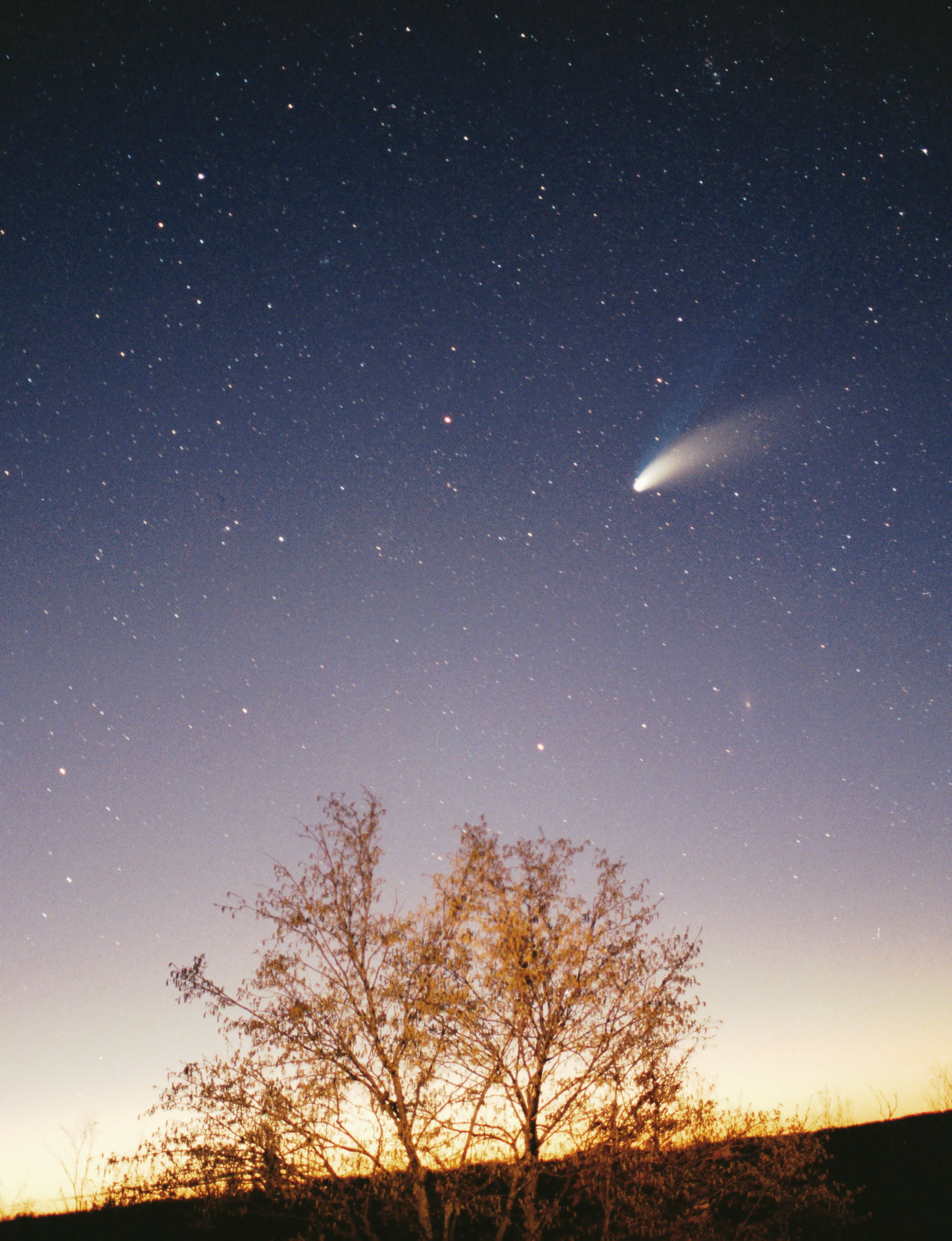 Photo of the comet Hale-Bopp above a tree. This picture was taken in the vicinity of Pazin in Istria/Croatia during a short easter holiday. The tree was illuminated using a small flashlight. To the lower right of the comet the Andromeda Galaxy M31 is also faintly visible.